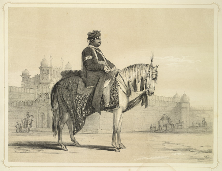 The Raja Hindu Rao, brother of female regent of Gwalior State, in 19th century.